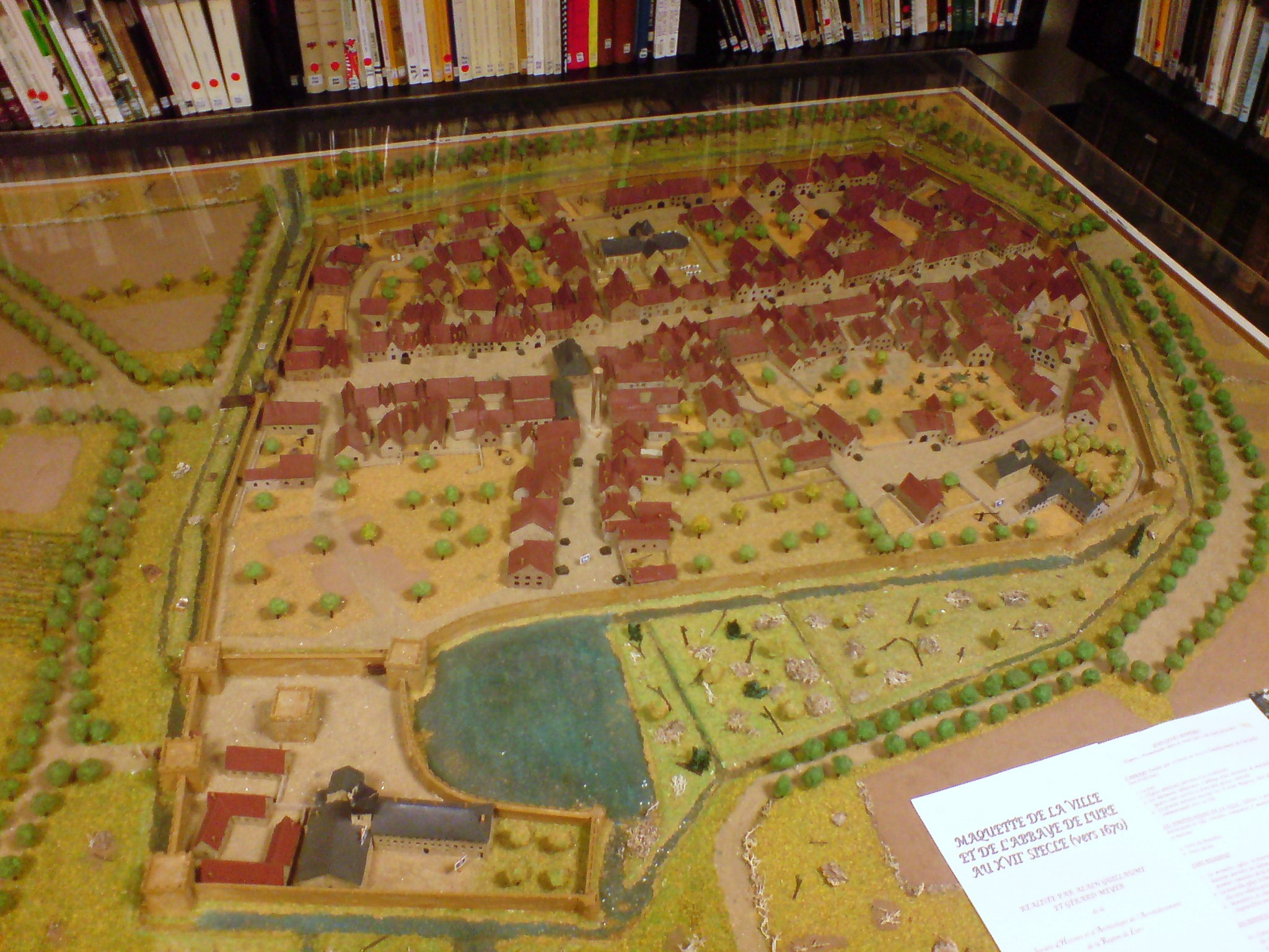 The photo shows a model Lure as it was during the seventeenth century, in 1670. We can notice that she was surrounded by a defensive wall and two moats.